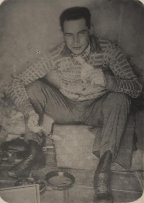 Jose De Leon Toral in Prison during his Trial